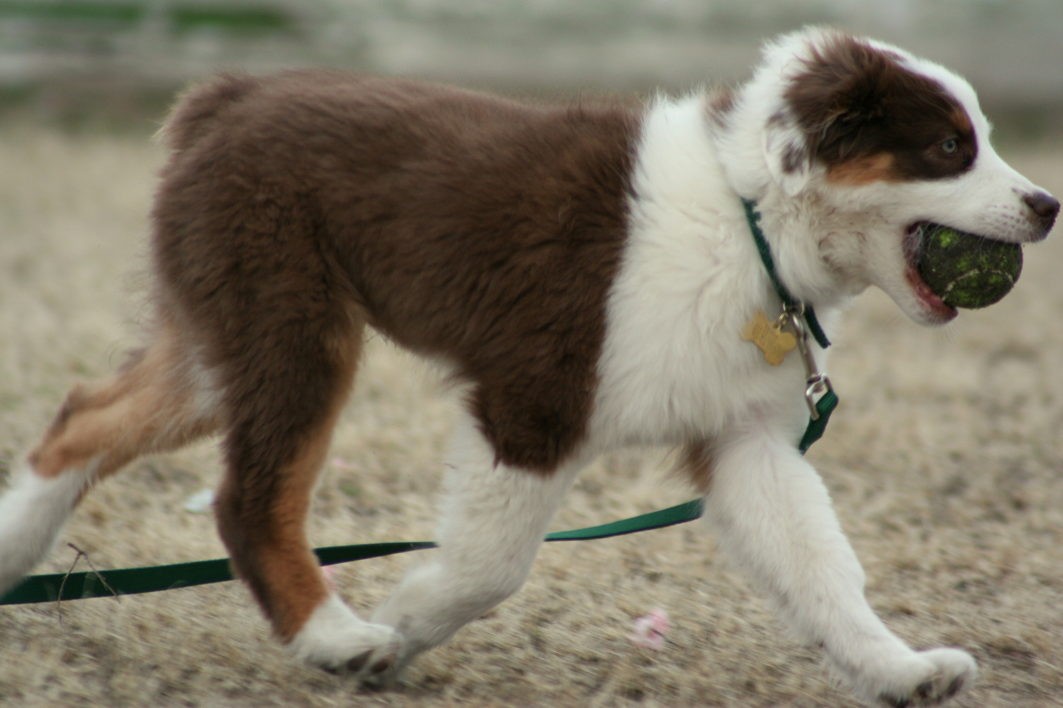 A red tricolour Australian Shepherd puppy.